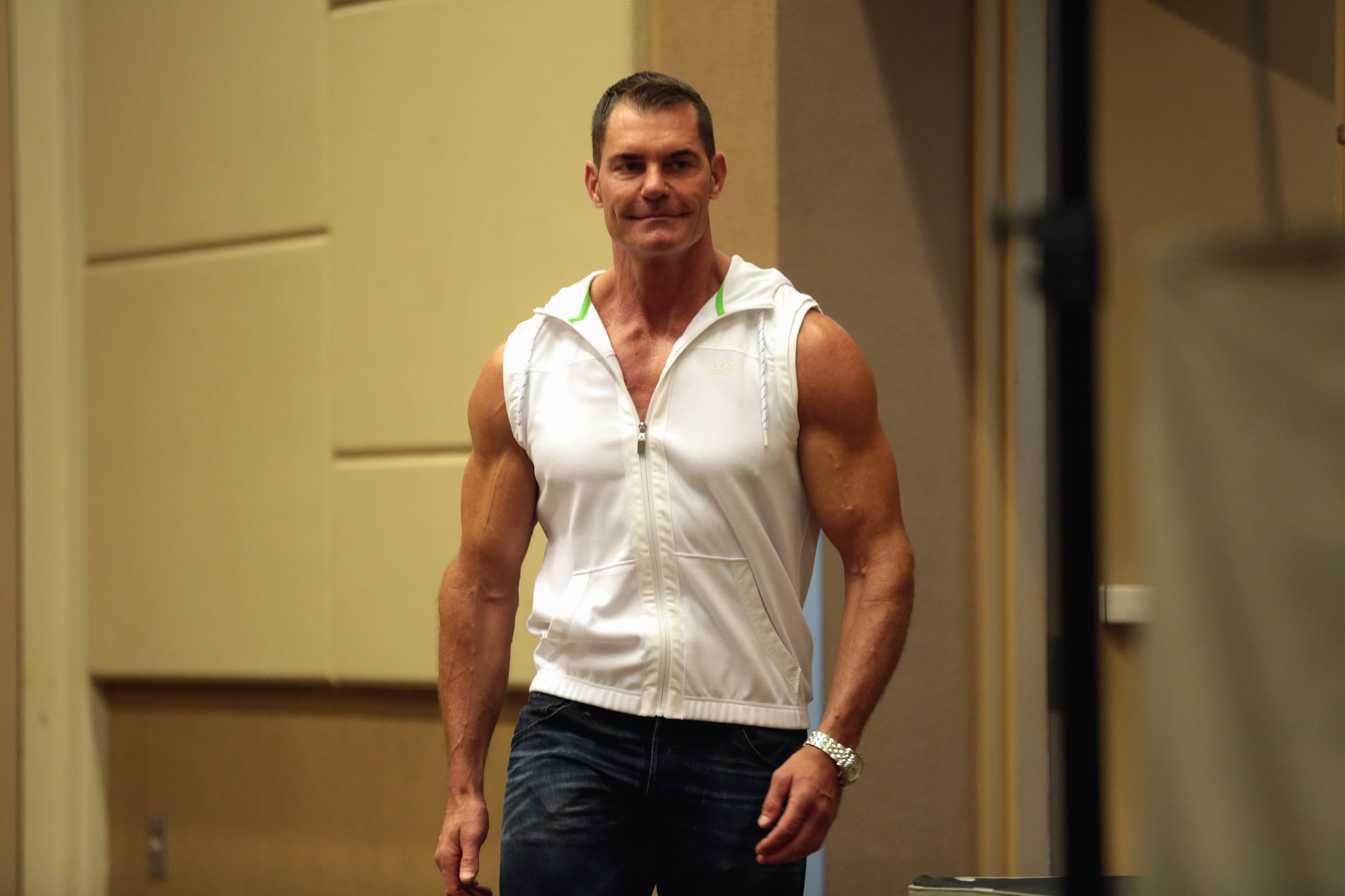 Brian Glynn speaking with attendees at the 2017 Game On Expo, for "Mortal Kombat 25th Anniversary Reunion", at the Phoenix Convention Center in Phoenix, Arizona.